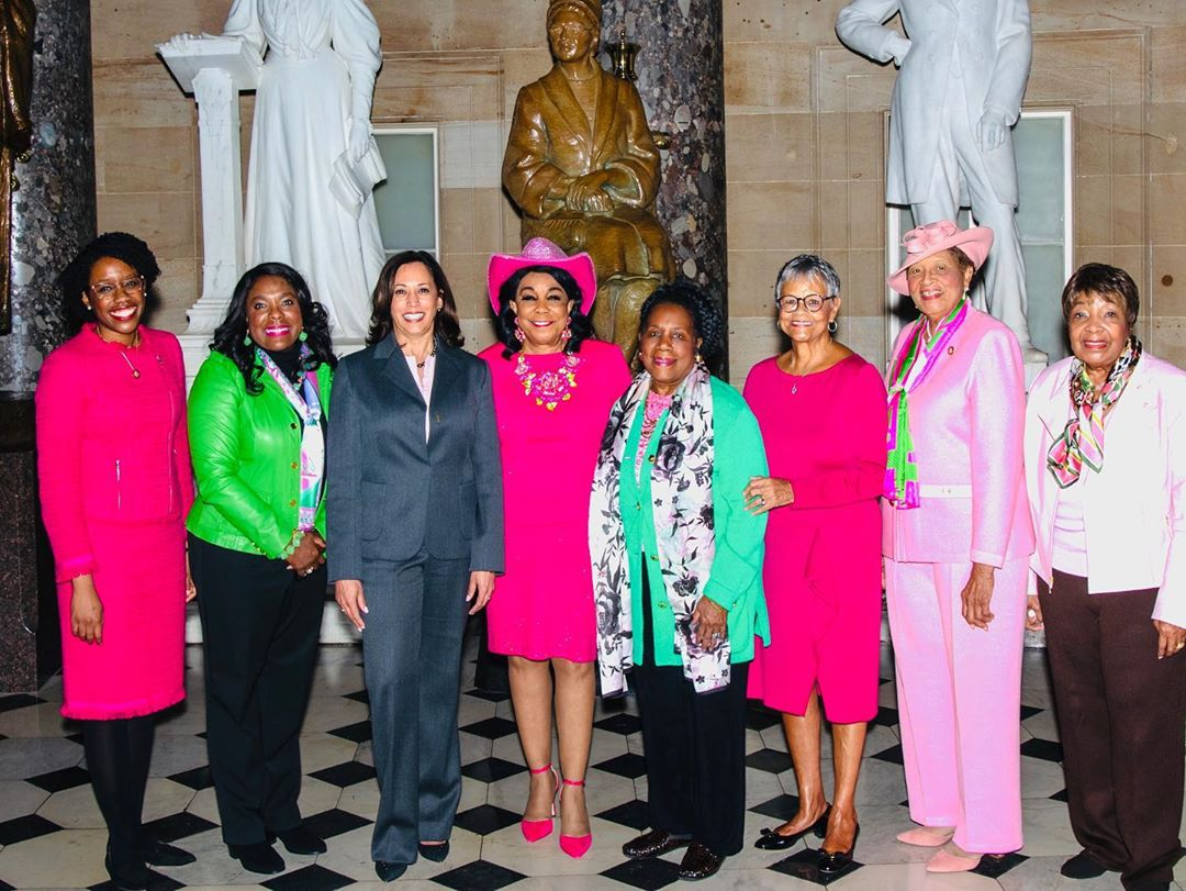 Happy Founders’ Day to my beloved Sorors of Alpha Kappa Alpha Sorority, Incorporated! On this day in 1908, our Founders envisioned a lifetime of sisterhood and service to all mankind. Even Nancy Pelosi helped us honor the oldest black Greek sorority by taking picture with House AKAs! #AKA1908 💗💚